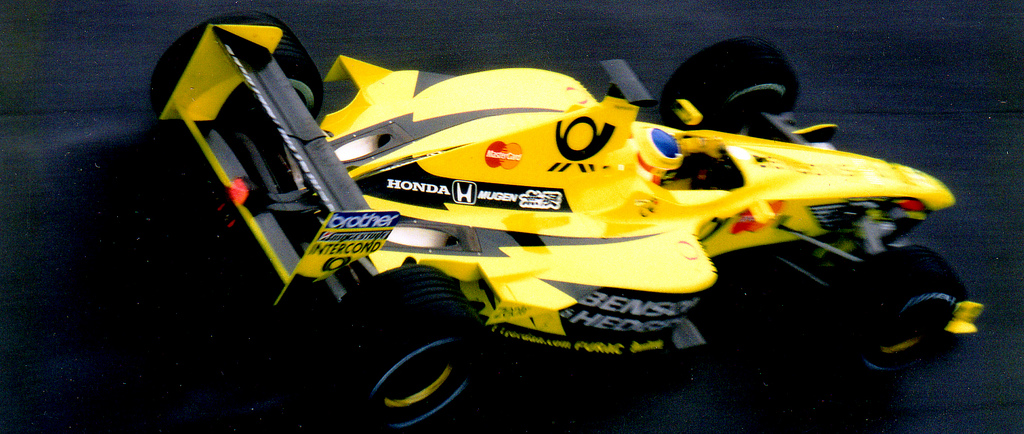 Jarno Trulli testing for Jordan at Monza in 2000.